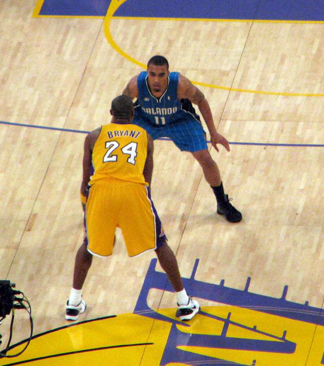 Kobe Bryant defended by Courtney Lee